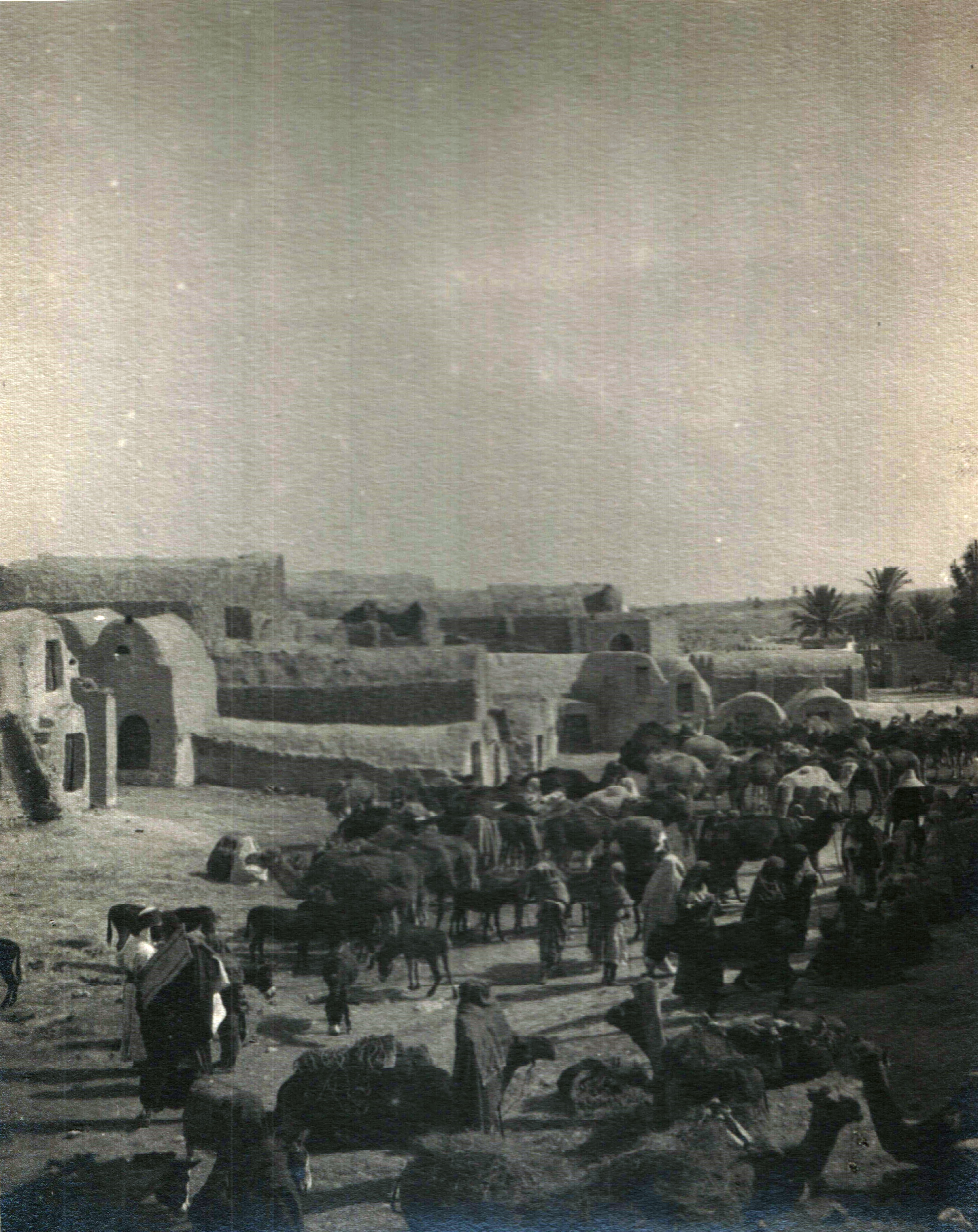 Photos of Sahara desert and other regions of Africa. Panorama of Medenine, Tunisia.